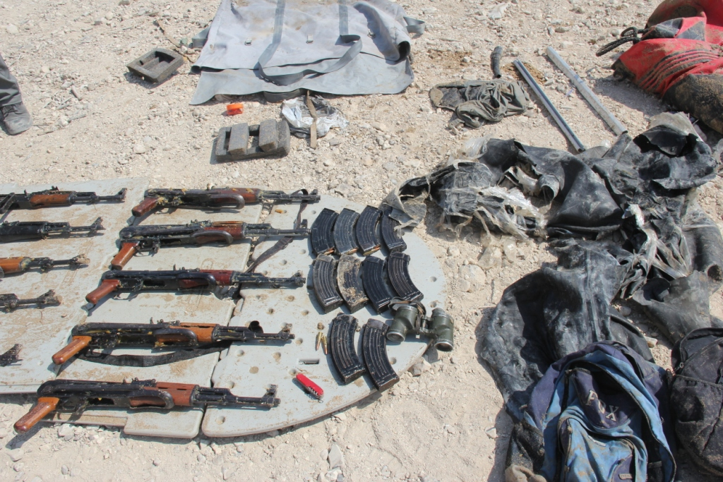 July 25th, 2011 Today the IDF and Israel Police thwarted an attempt by two Palestinians to smuggle weapons from Jordan to the West Bank. A rubber-inflated boat carrying ten AK-47s, ten matching magazines and approximately 300 bullets along with the Palestinian suspects, was apprehended by the IDF and Police in the Dead Sea. The two Palestinians onboard will be questioned by Israeli security forces. Pictured: The array of weaponry found by the IDF and Israeli Police.